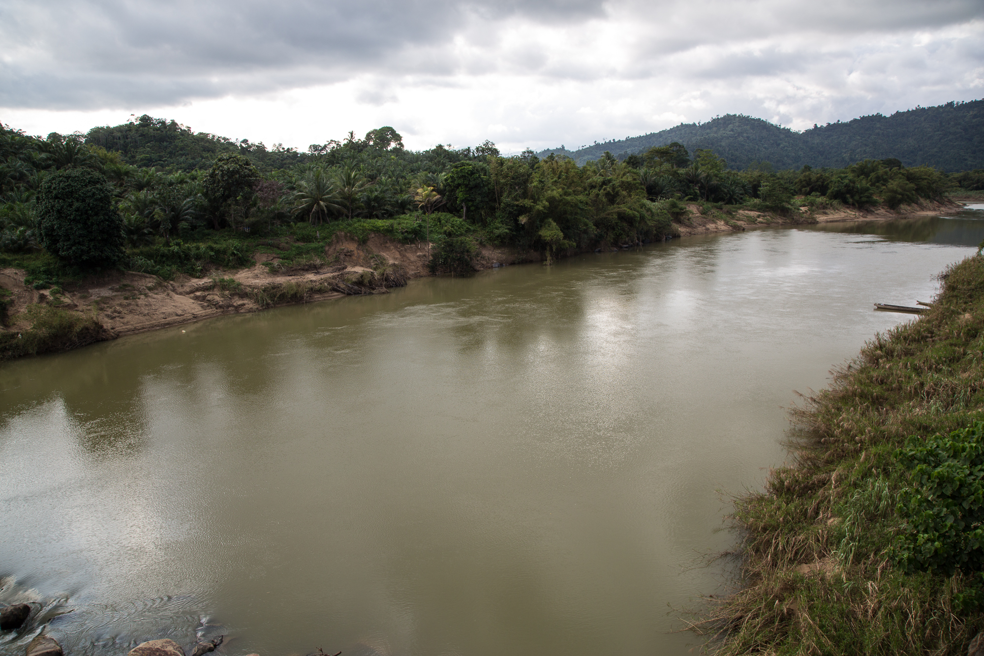 Rivers of Sabah: Sungai Sugut; Sungai Sugut Bridge over A1 Road